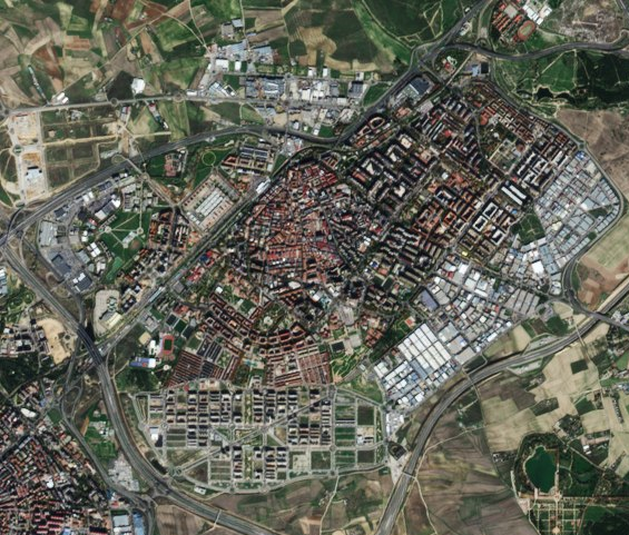 The diverse landscapes of the autonomous Community of Madrid in the heart of Spain are evident in this week’s image. The community and country’s capital city is visible near the centre of the image. Zooming in, we can see the Buen Retiro park just east of the city centre with its large, artificial pond. About 3.5 km due north sits the Santiago Bernabéu football stadium. Southeast of the stadium we can see another circular structure: the Las Ventas bullfighting ring. In the upper left corner of the image is the El Pardo mountain and protected natural park, which is popular for mountain biking. The other areas surrounding Madrid are blanketed with agricultural structures. East of the city are large fields along the Jarama river, and more areas of agriculture appearing brown further east still. This image, also featured on theEarth from Space video programme, was taken by the Sentinel-2A satellite on 16 November 2015. Launched in June 2015, Sentinel-2 can map changes in land cover such as forest, crops, grassland, water surfaces and artificial cover like roads and buildings in cities. Early results from the mission on mapping changes in land cover are expected to be presented at the upcoming Living Planet Symposium, held in Prague in May. The event brings together scientists and users to present their latest findings on Earth’s environment and climate derived from satellite data.